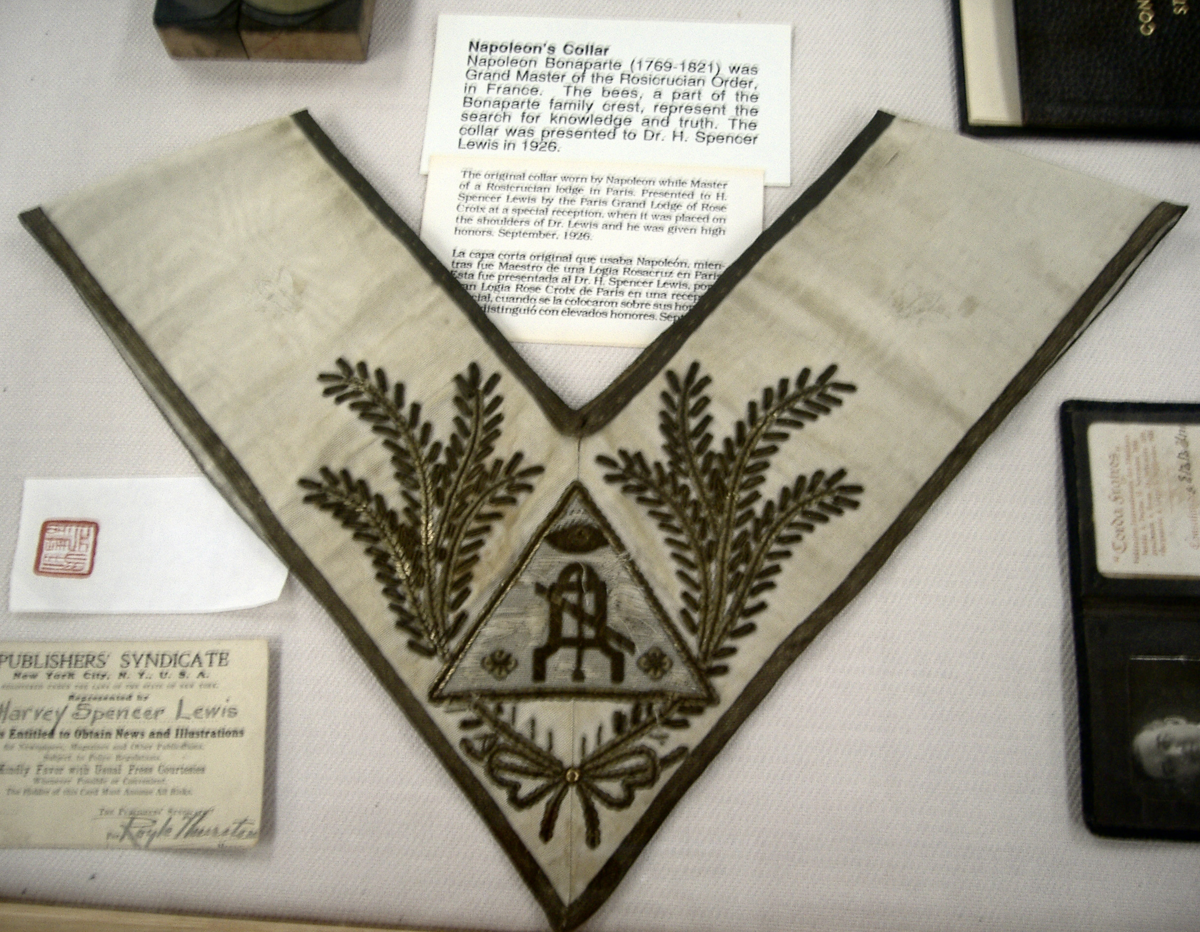 This is a picture of Napoleon Bonaparte's ceremonial collar, used while serving as Grand Master of the Rosicrucian Order in France. The smaller caption reads: "The original collar worn by Napoleon while Master of a Rosicrucian lodge in Paris. Presented to H. Spencer Lewis by the Paris Grand Lodge of Rose Croix at a special reception, when it was placed on the shoulders of Dr. Lewis and he was given high honors. September 1926." This image was taken by myself, in the AMORC Rosicrucian Library in San Jose, California. This was one of the many items on display